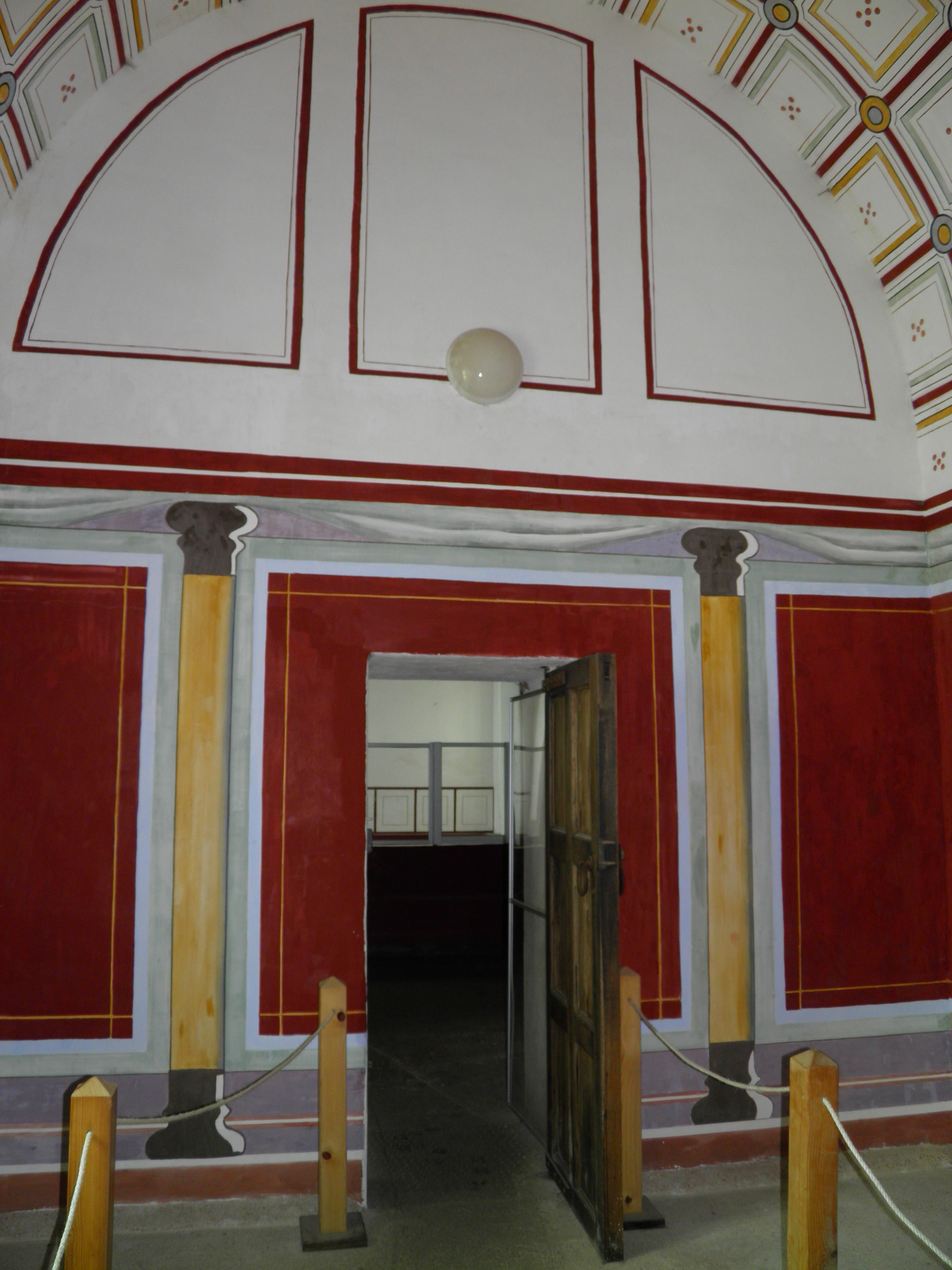 The replica Roman bath house at Segedunum fort in Wallsend